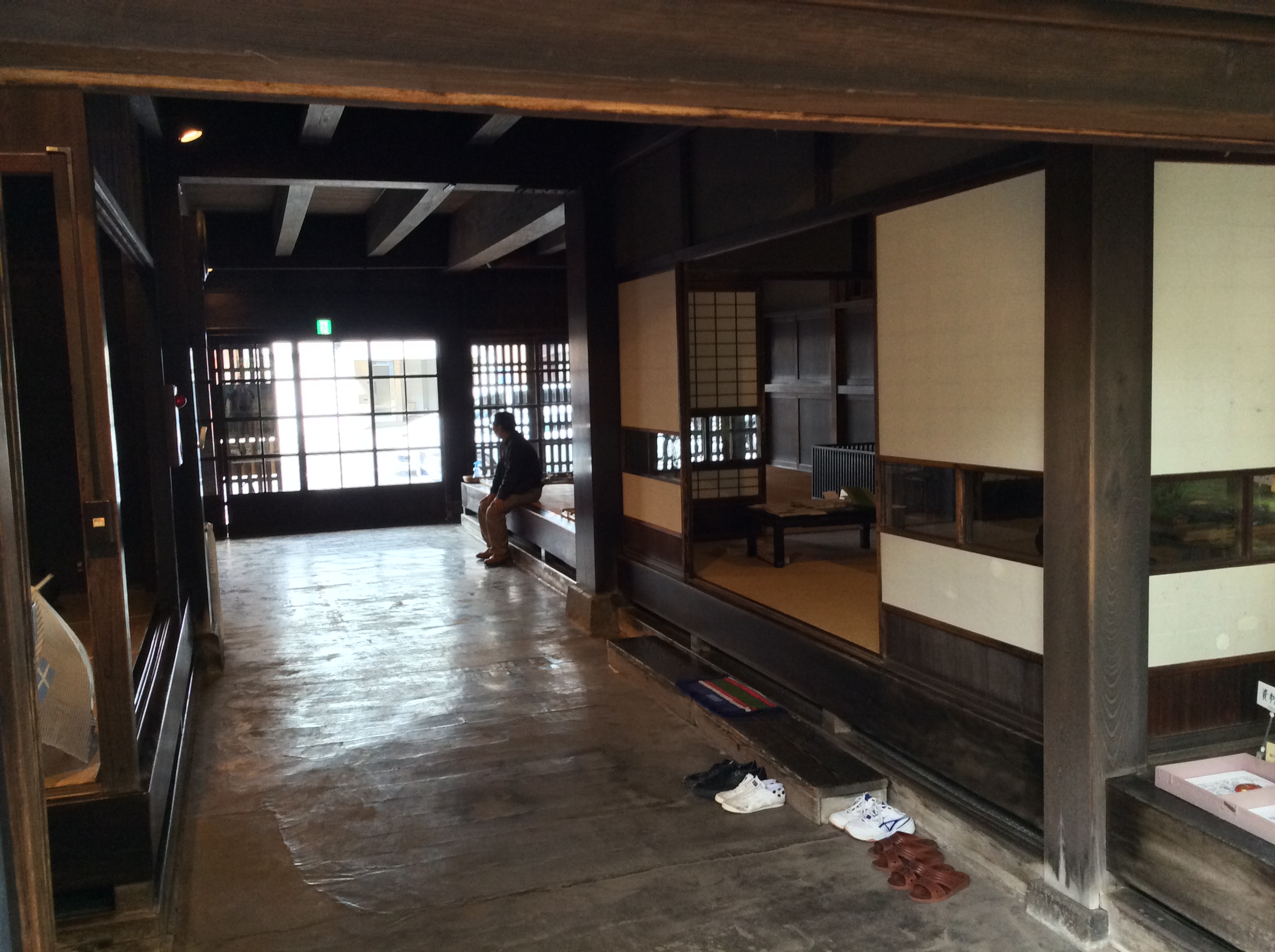 Kyuu Shinohara-ke Juutaku, inside